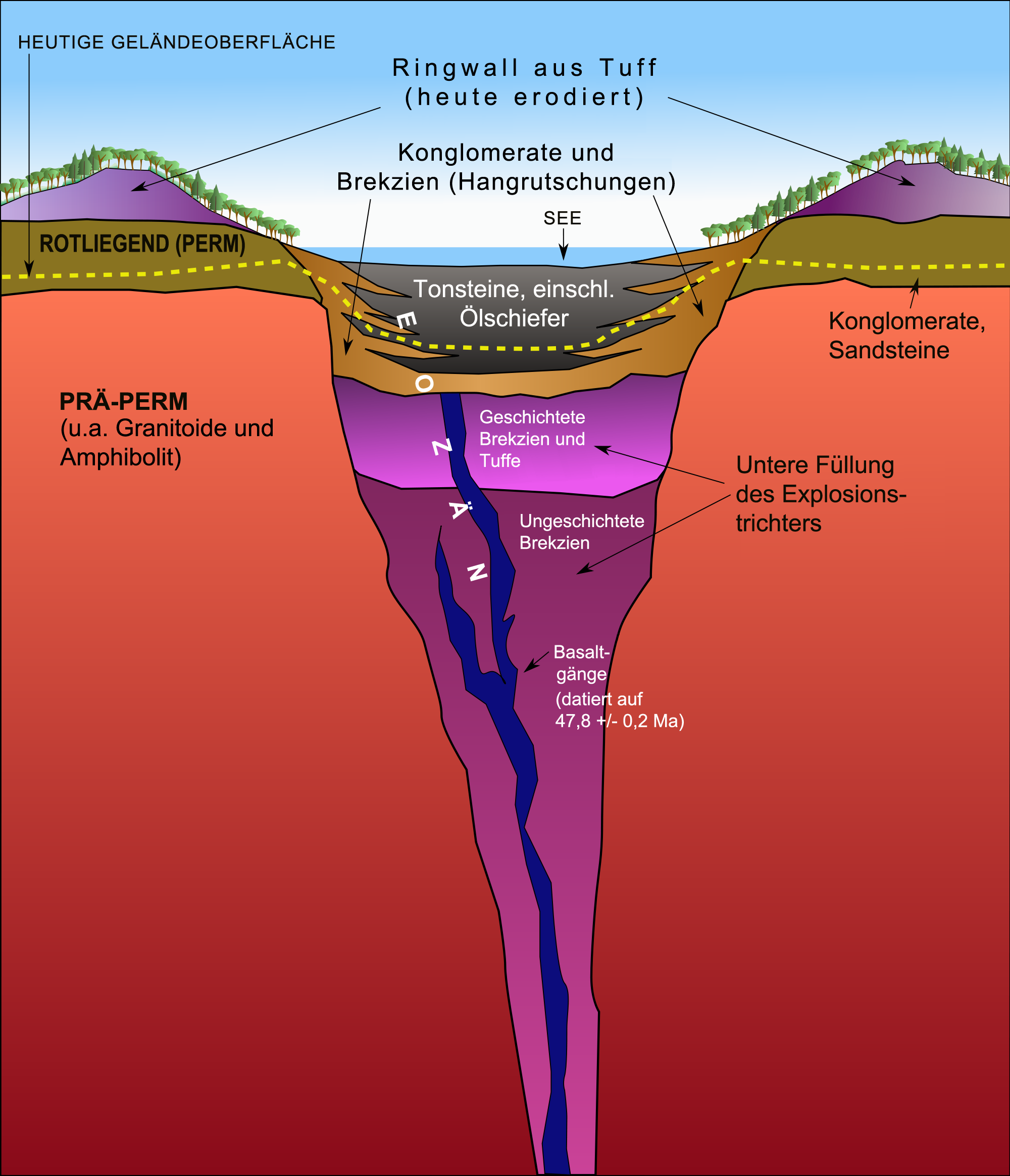 Schematic cross section through the messel pit fossil site at time of deposition of Messel Formation (Middle Eocene). Based upon: see references in Spanish description below.